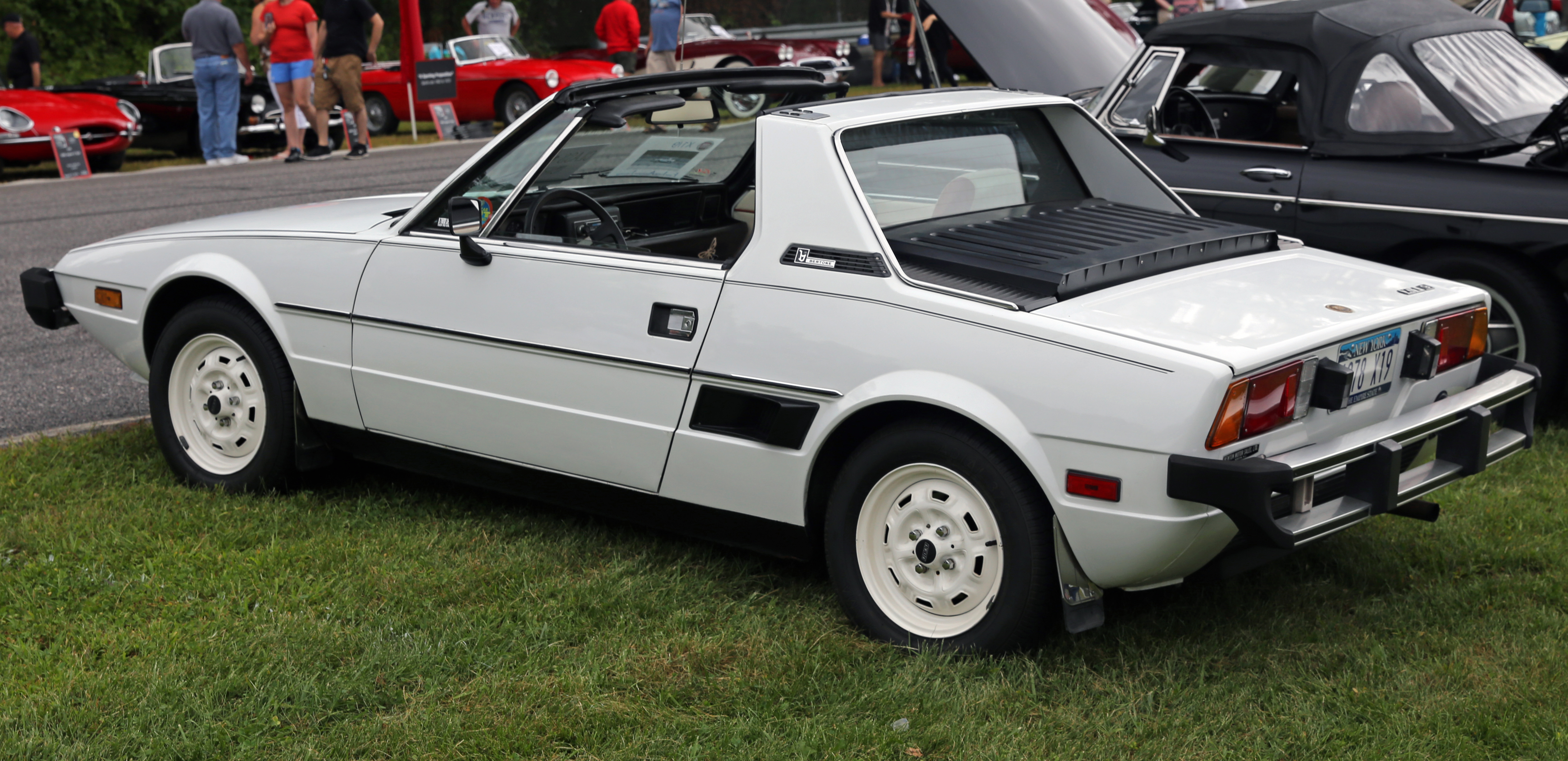 Rear left ¾ view of a 1978 US market Fiat X1/9, glorious in an all-white paint job. This is a rather late Series 1 car, later in 1978 the X1/9 (MY79) got even heftier bumpers to replace these ladder-style ones.